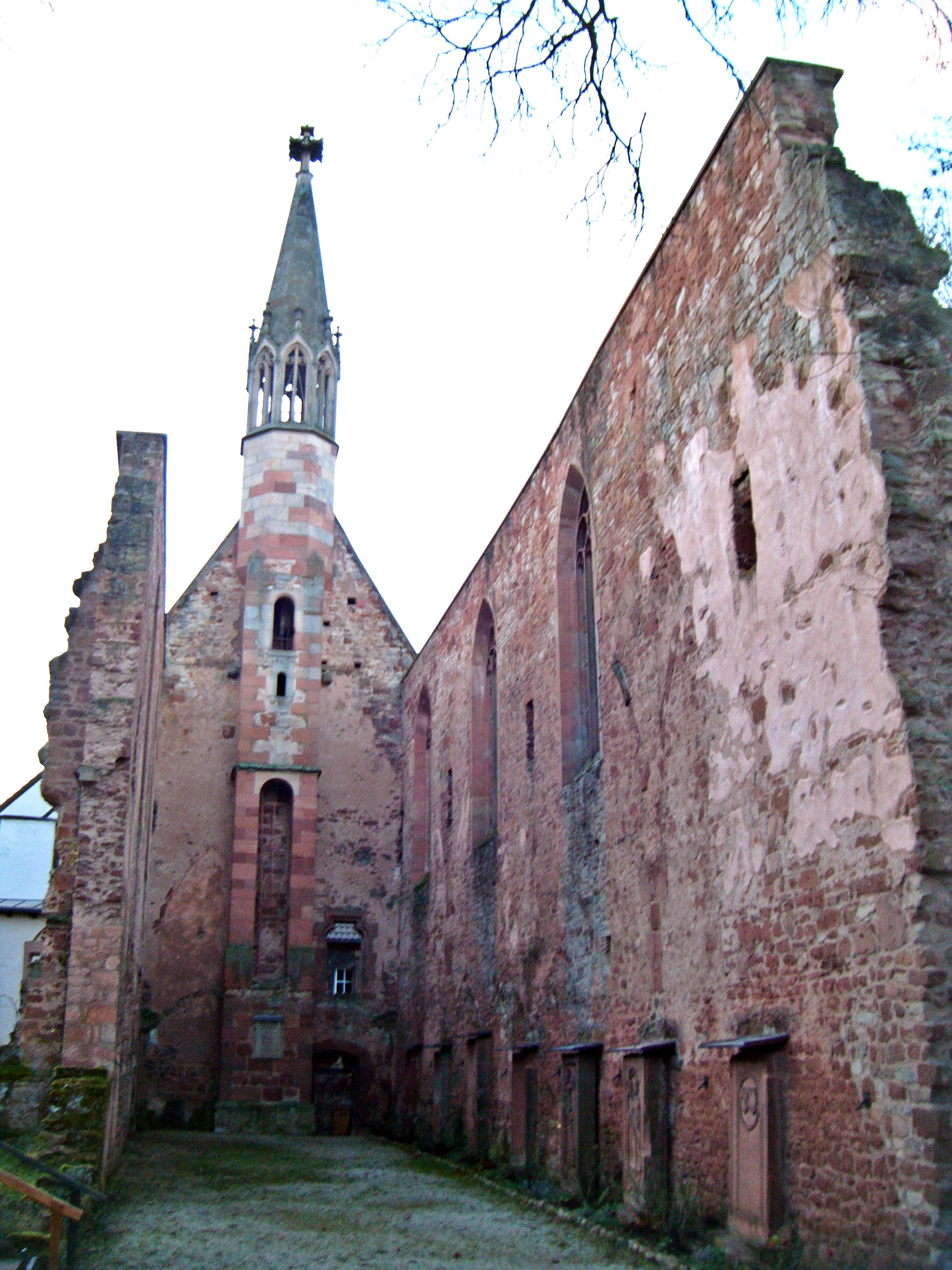 Klosterkirche Rosenthal, innen